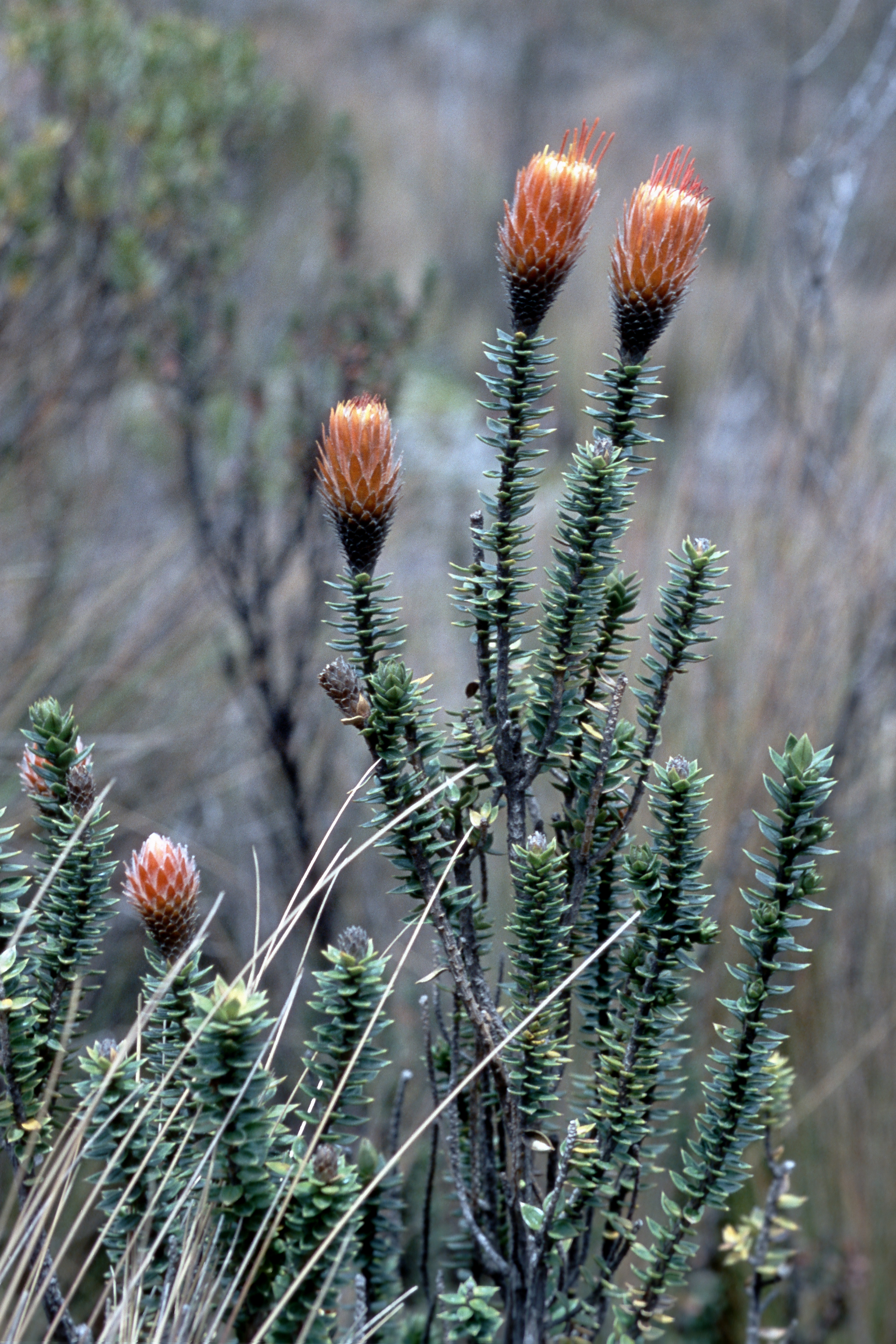 Chuquiraga jussieui Cotopaxi